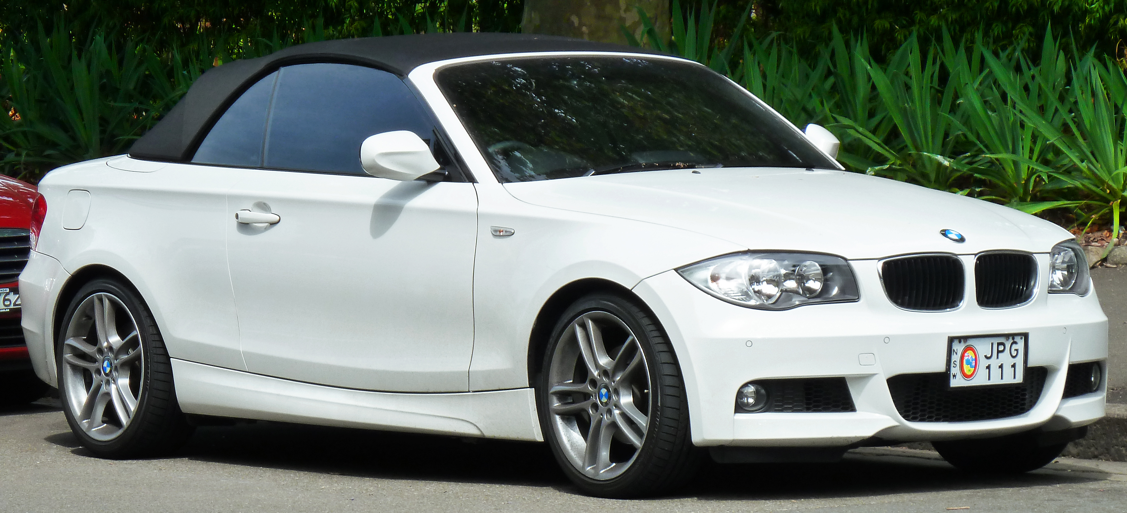 2008–2010 BMW 120i (E88) convertible. Photographed in Sydney, New South Wales, Australia.